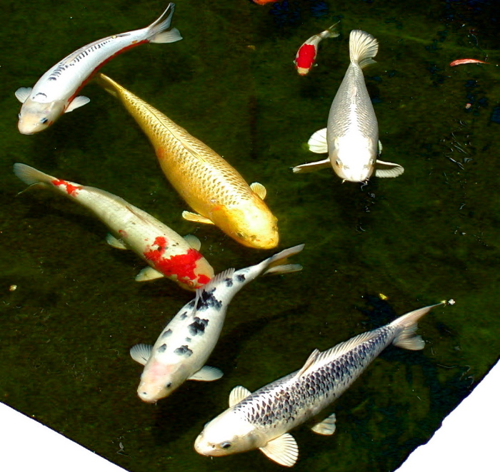 Six koi in a pond (large version) This photograph depicts six koi of a collection of ten living in a private outdoor pond in San Jose, California. The pond is about 45 cm (18 in) deep, which is shallower than ideal - it was not originally designed for koi. The largest fish seen is the yellow ogon at about 50 cm (20 in) long; it was four years old at the time of the photo. Fish types in this picture, from top to bottom: shusui (blue with red streaks) a goldfish (the small red and white fish) diamond platinum ogon (white) ogon (yellow) kohaku (red on white) bekko (black on white) asagi(?) (silvery black on white)